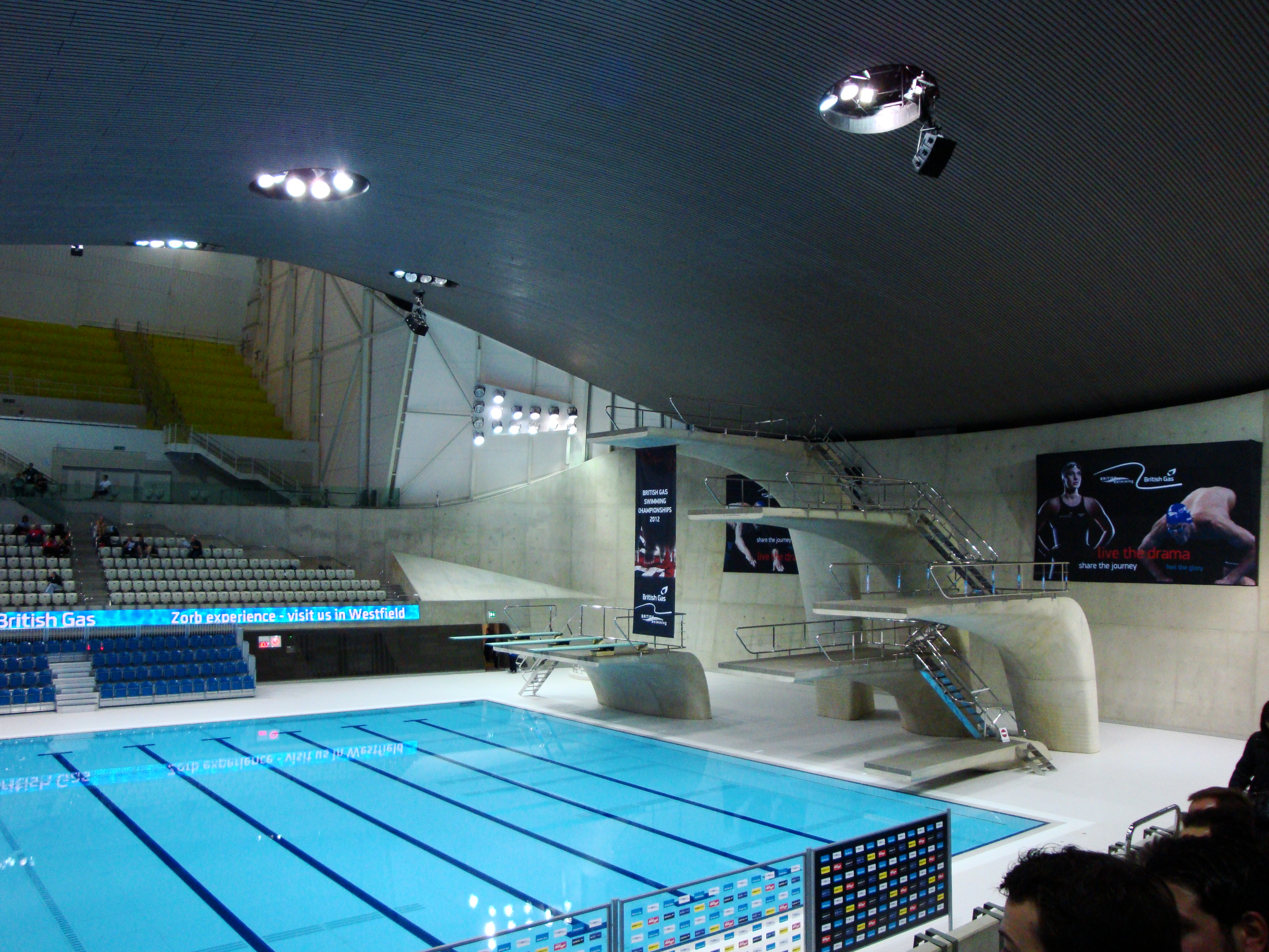 The diving boards at the aquatics centre. This was taken at the British Swimming Championships in March 2012, which doubled at the test event for the Olympics .